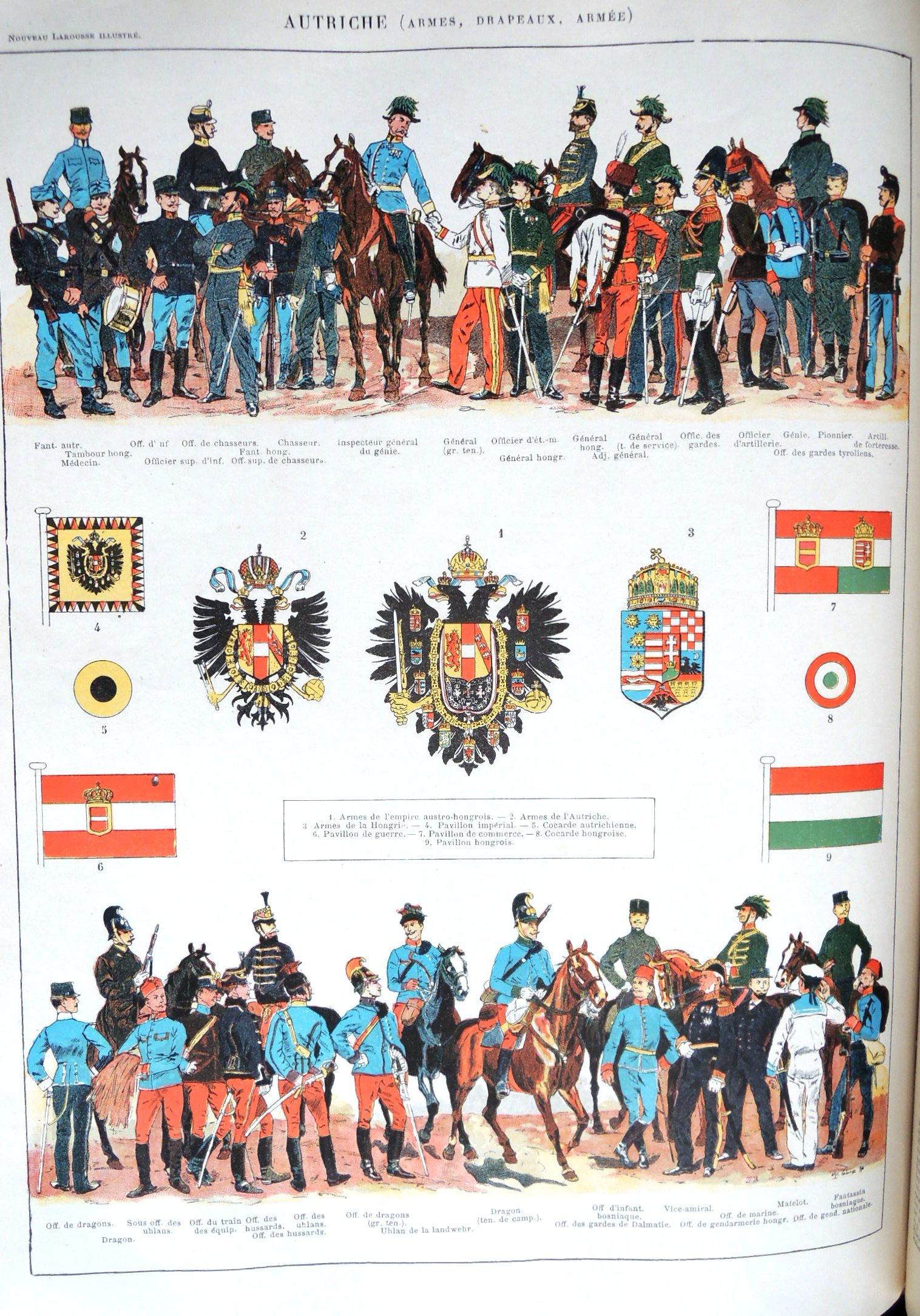 Austro-Hungarian army, c. 1900